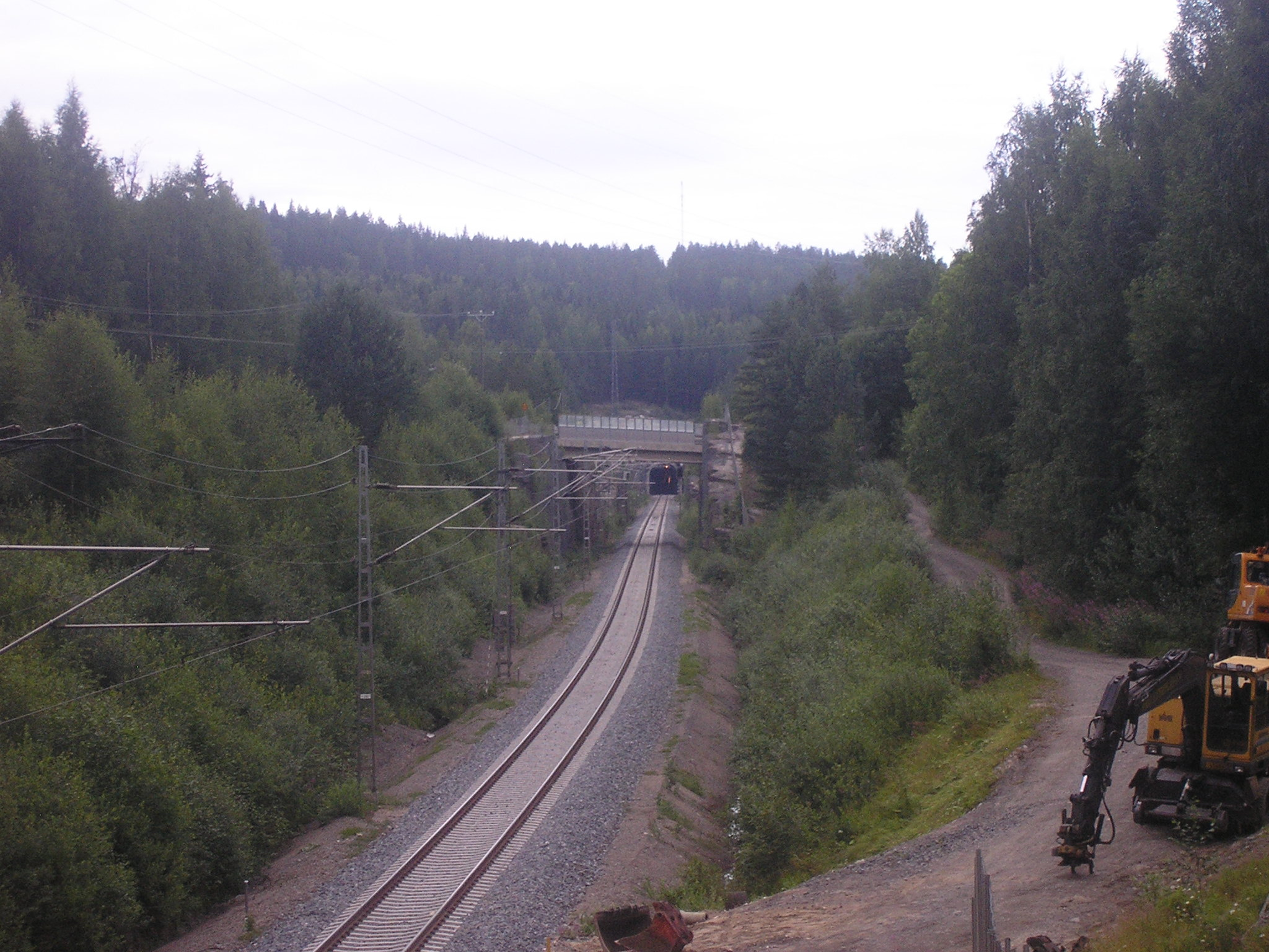 Orivesi-Jyväskylä railway in Muurame towards Jyväskylä.